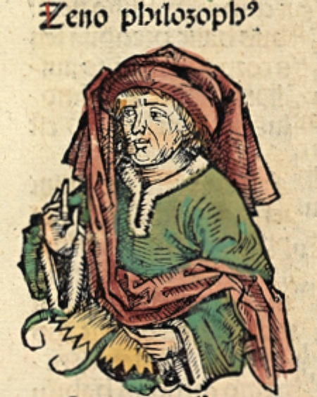 Ancient Greek philosopher Zeno of Citium, depicted in the Nuremberg Chronicle